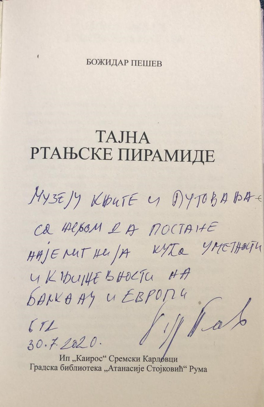 Božidar Pešev's, Serbian writer, journalist, librarian, book inscription to the Museum of Book and Travel in Belgrade, Serbia. Српски (ћирилица): Посвета Божидара Пешева Музеју књиге и путовања. Налази се у Удружењу за културу, уметности и међународну сарадњу „Адлигат” у Београду.